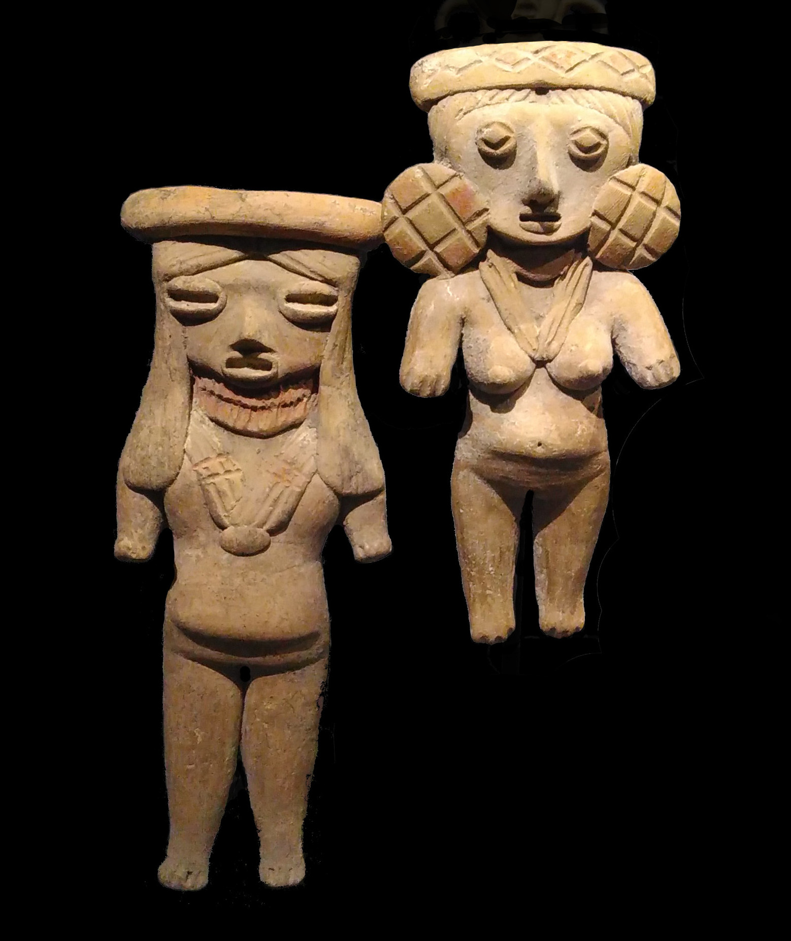 Female figurines found in Mexico in Guanajuato, identified as pre-classic clay figures from the Chupicuaro culture, 400-100 BC, called “Pretty Ladies” by some archaelogists. Part of the collection of the Royal Museums of Art and History in Brussels (AAM 68.14,21,22,24). This picture was taken in the exhibition of the “Méso-Amérique” room of the museum. It contained some elements of the vitrine (structure to hold the figurines, background of the vitrine and parts of other objects in the same vitrine), which were replaced here by a dark background, using the software Gimp. The dark background can remind us of the fact that these objects were buried. This decision is of course questionable.